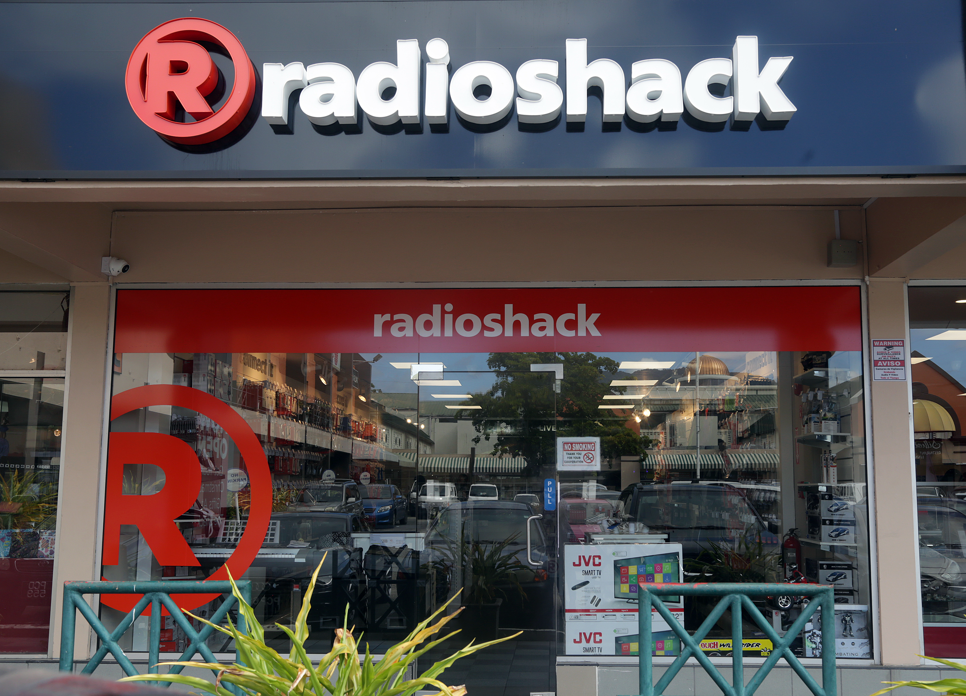 Radio Shack store in Valpark, Trinidad & Tobago